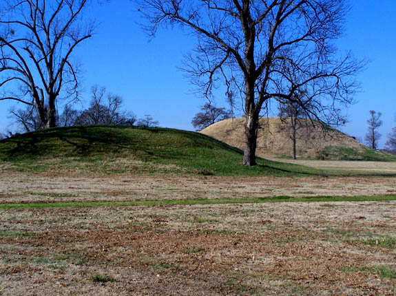 A photo of mounds at the Toltec Mounds Archeological State Park in Arkansas, USA.